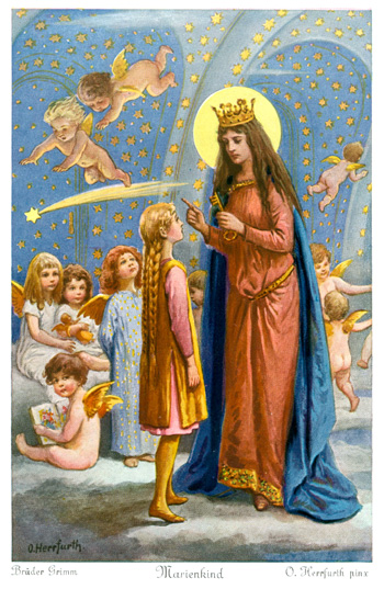 illustration of the Brothers Grimm fairy tale "Mary's Child"